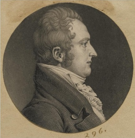 William Peter Van Ness, federal judge from New York